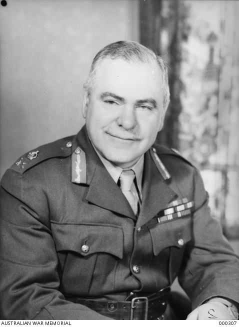 Australian General Thomas Blamey